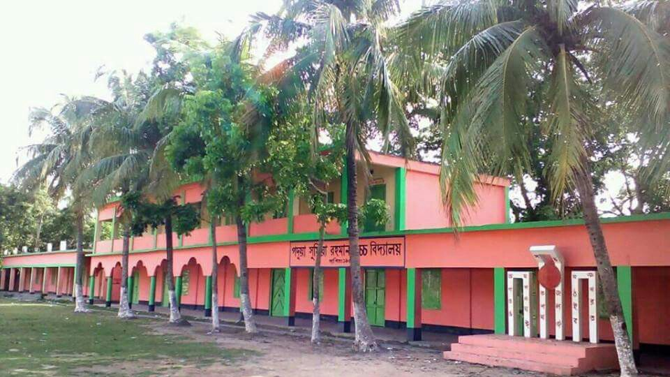 Padua Sufia Rahman High School